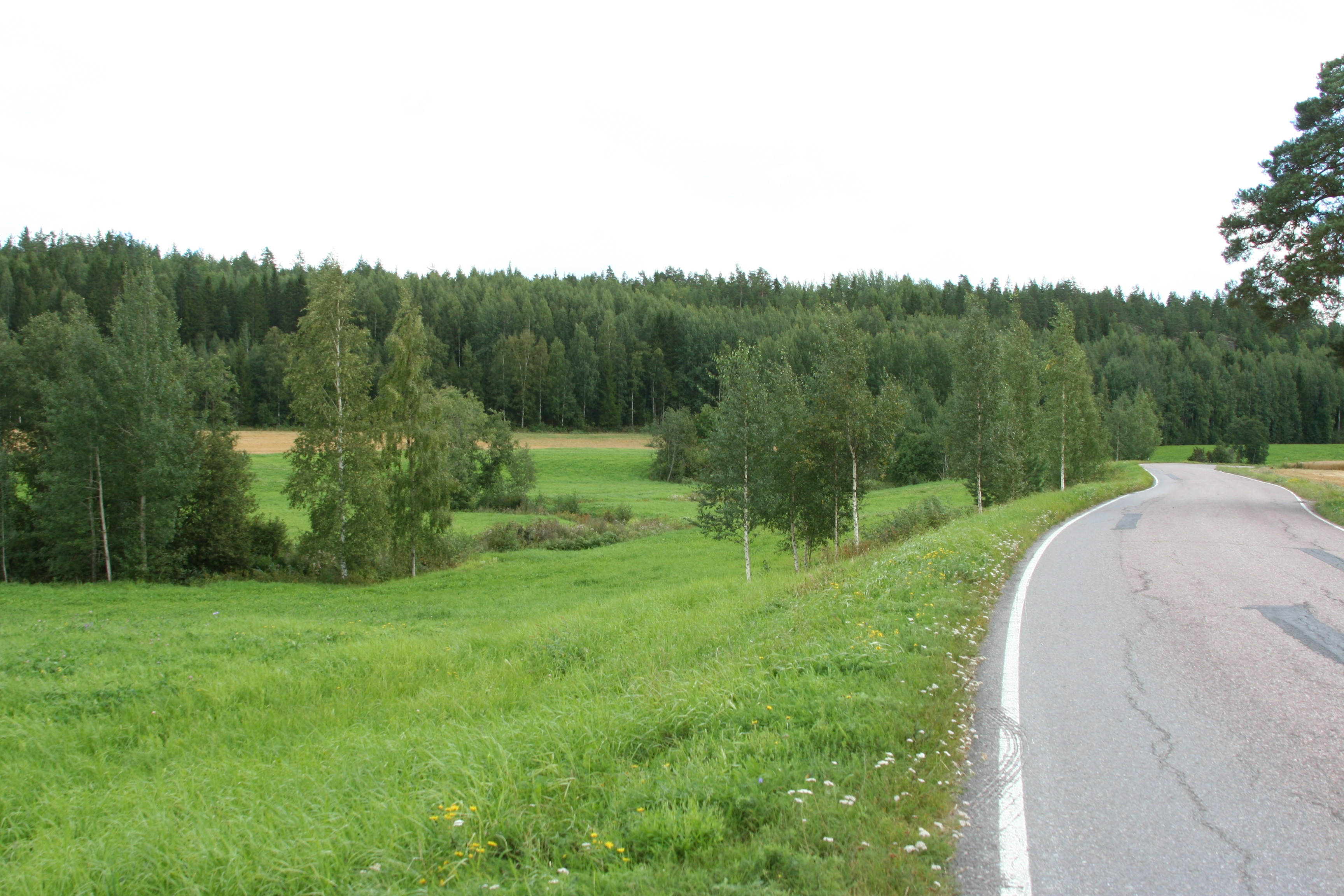 The narrow river Aura bending towards Turku, Pöytyä, Finland